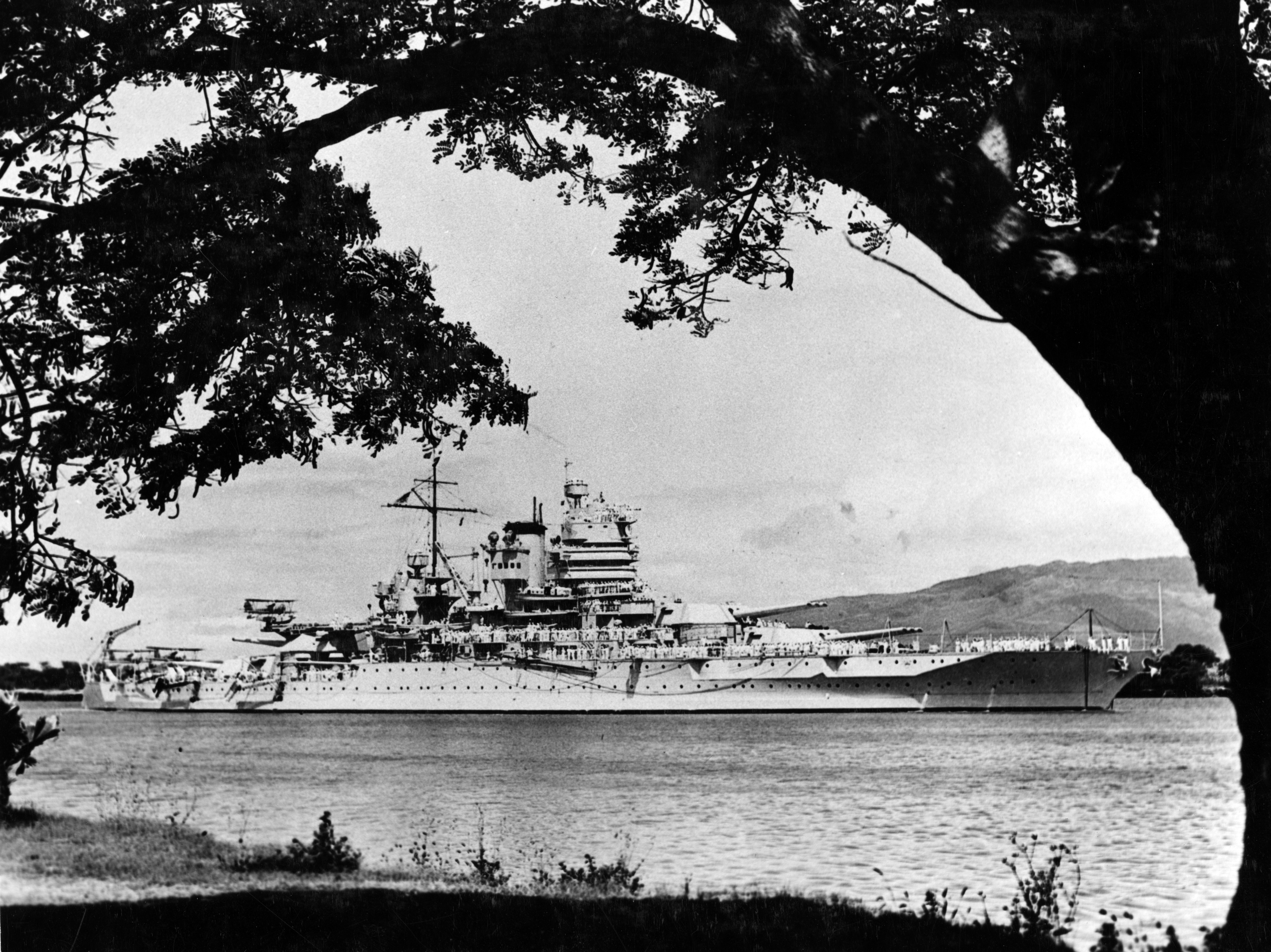 The U.S. Navy battleship USS New Mexico (BB-40) in Pearl Harbor, Hawaii, in about 1935.